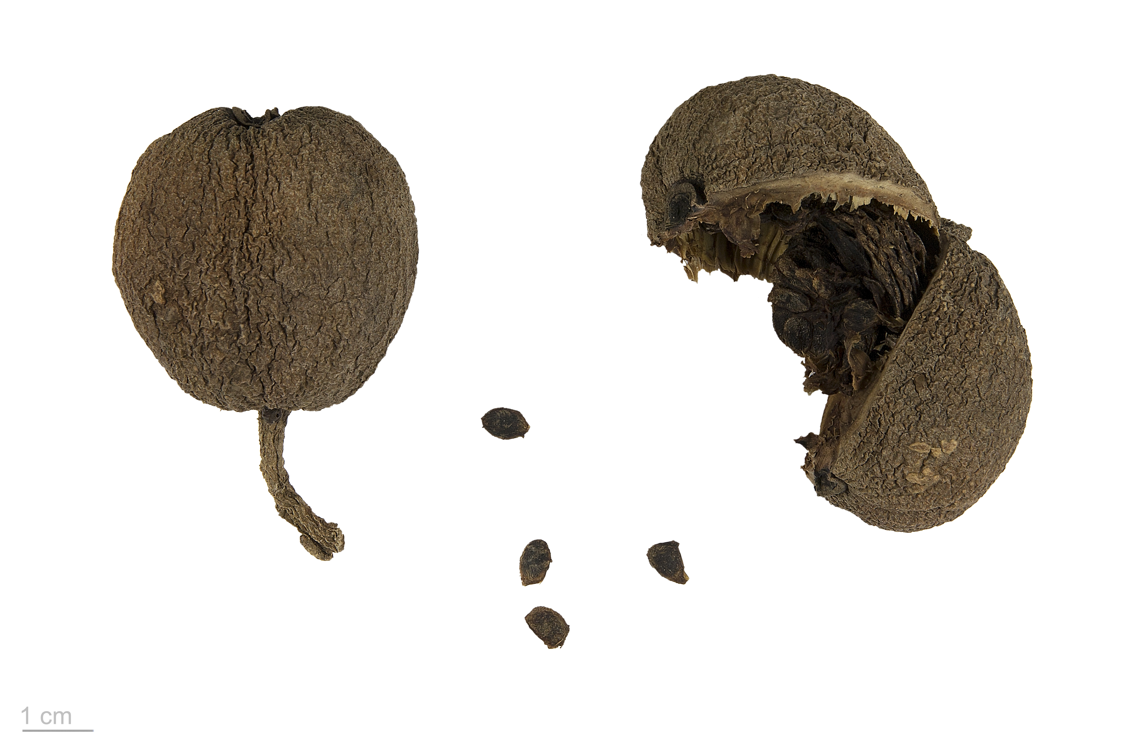 Genipa spruceana, fruits and seeds